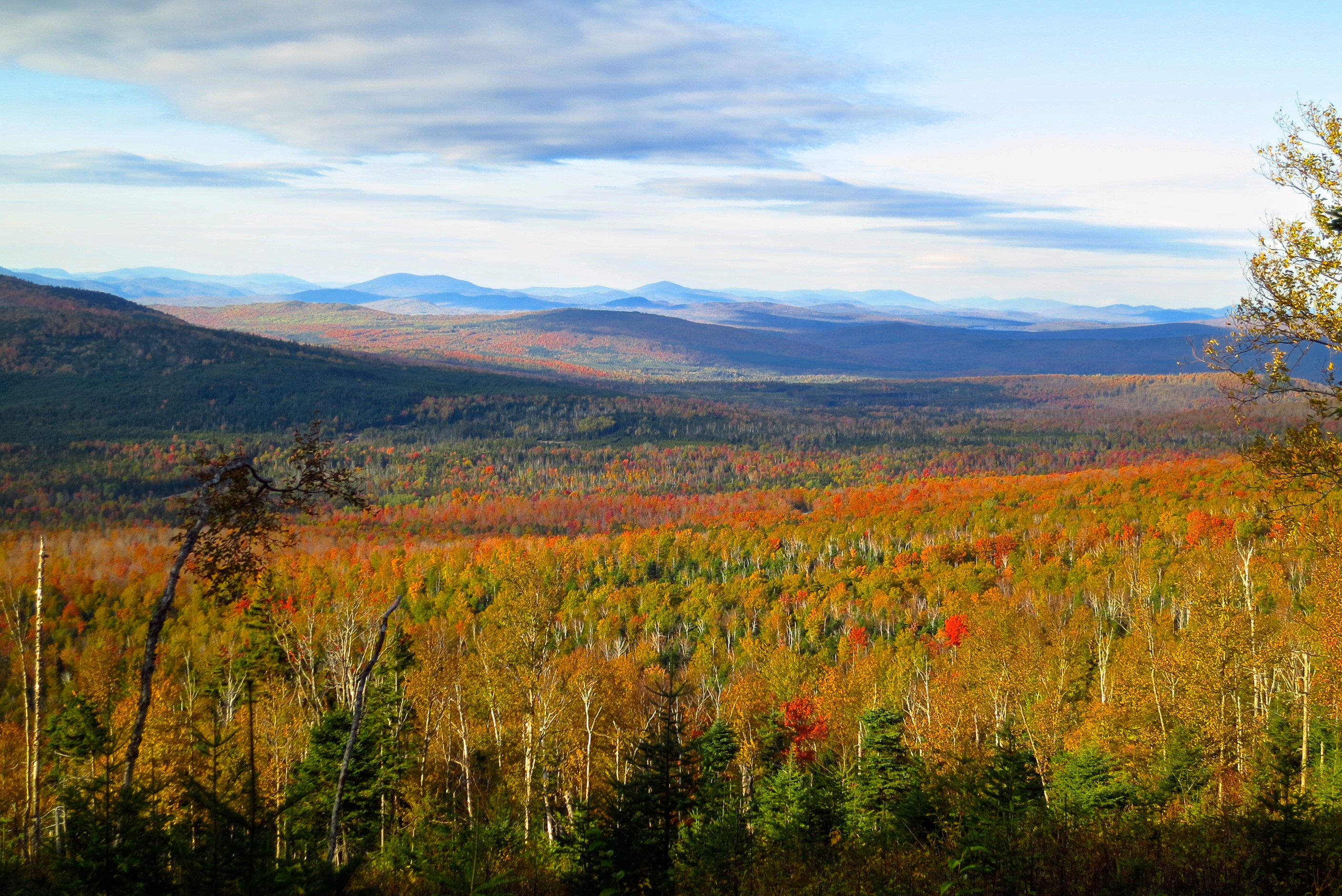 View looking north from the Speck Pond Trail of the New Hampshire/Maine border.